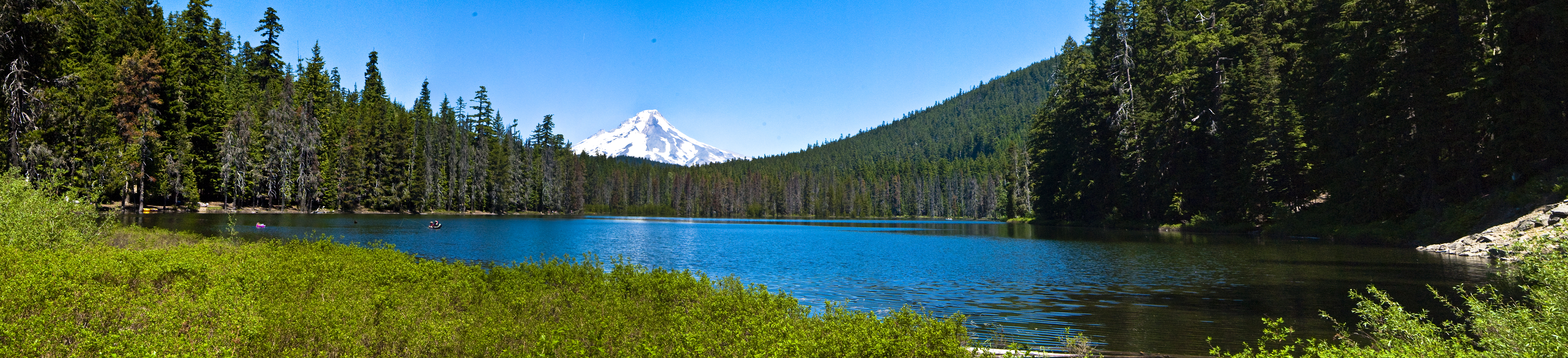 Mt Hood from Frog Lake Panoramic-Mt Hood